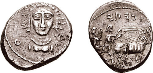 SYRIA, Cyrrhestica, Bambyce (later Hieropolis). Abyaty. Circa 340-332 BC. AR Didrachm (8.41 gm, 11h). "[Hadad] and Ateh" in Aramaic, facing female bust, wearing necklace / "Abyaty" in Aramaic, high priest and driver, who hold reins, in quadriga right. Mildenberg, "A note on the coinage of Hierapolis Bambyce," Travaux Le Rider, 5 (this coin); Seyrig, "Le monnayage de Hieropolis de Syrie à l'epoque d'Alexandre," RN 1971, pl. 1, 4; Price, "More from the Memphis and the Syria 1989 hoard," Essays Carson-Jenkins, pg. 34, 16-17; BMC Syria -; SNG Copenhagen -; cf. SNG München 453. Good VF, toned, light scratches, obverse banker's mark, test cut on reverse. Very rare. This remarkable coinage was struck by the last Achaemenid daynasts/priests of Bambyce, and spans the gap between the Achaemenid and Alexandrine issues. With the exception of the Atargatis type (see next lot), the types used were primarily copied from popular coins in circulation at the time. On this particular issue, we see the influence of the contemporary facing-head issues of Tarsos (which themselves were influenced by Kimonean Syracuse issues; see lots 508-509 above), and the quadriga type in use at Sidon.